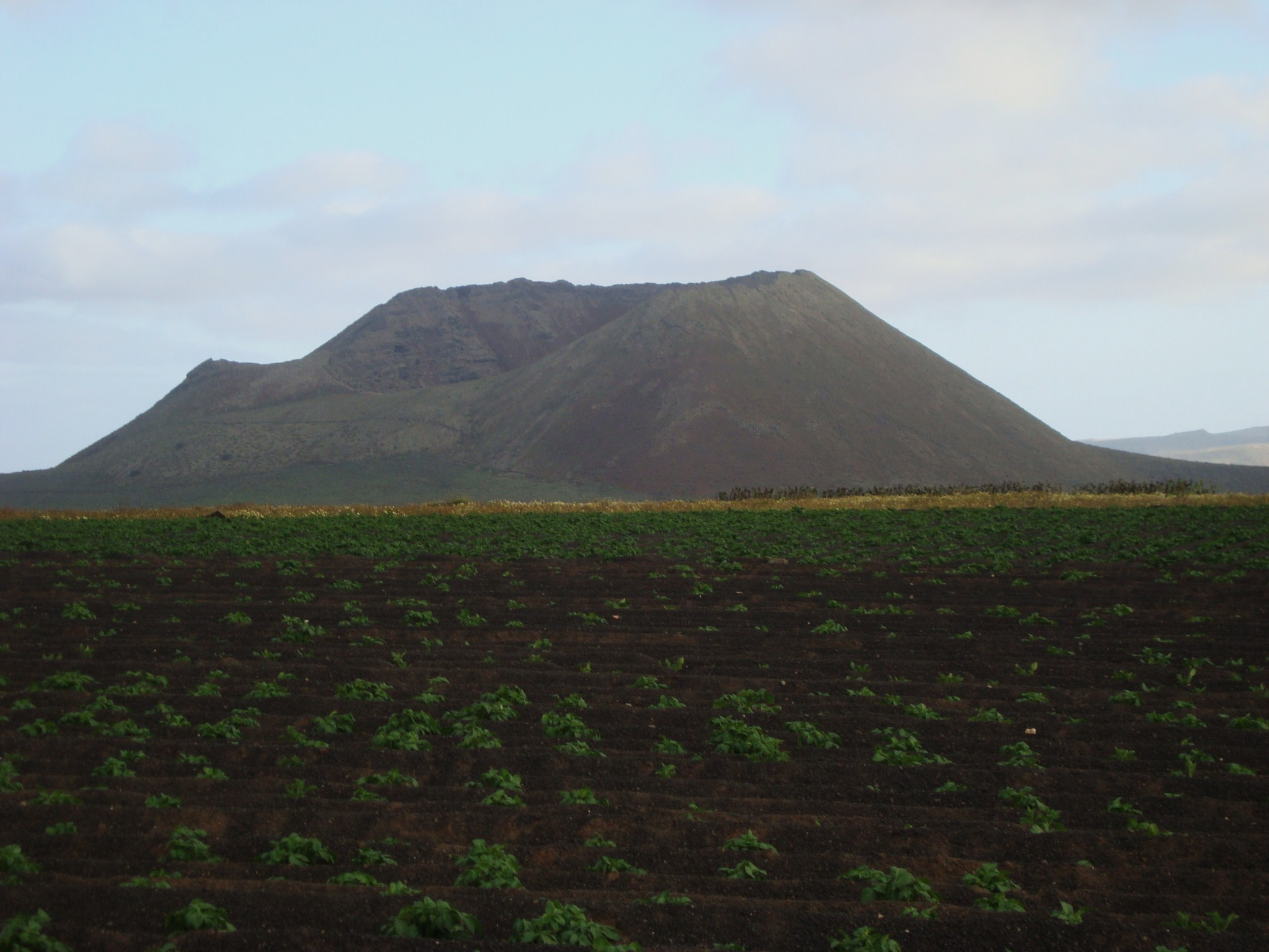 La Corona Volcano, Lanzarote, Canary Islands